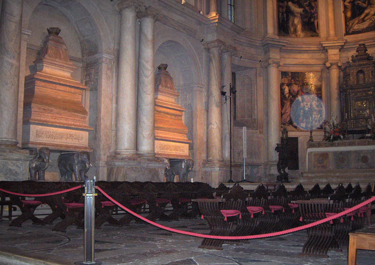 Tombs of King D. Manuel and D. Maria in the church of the Jerónimos Monastery, Belém, Portugal